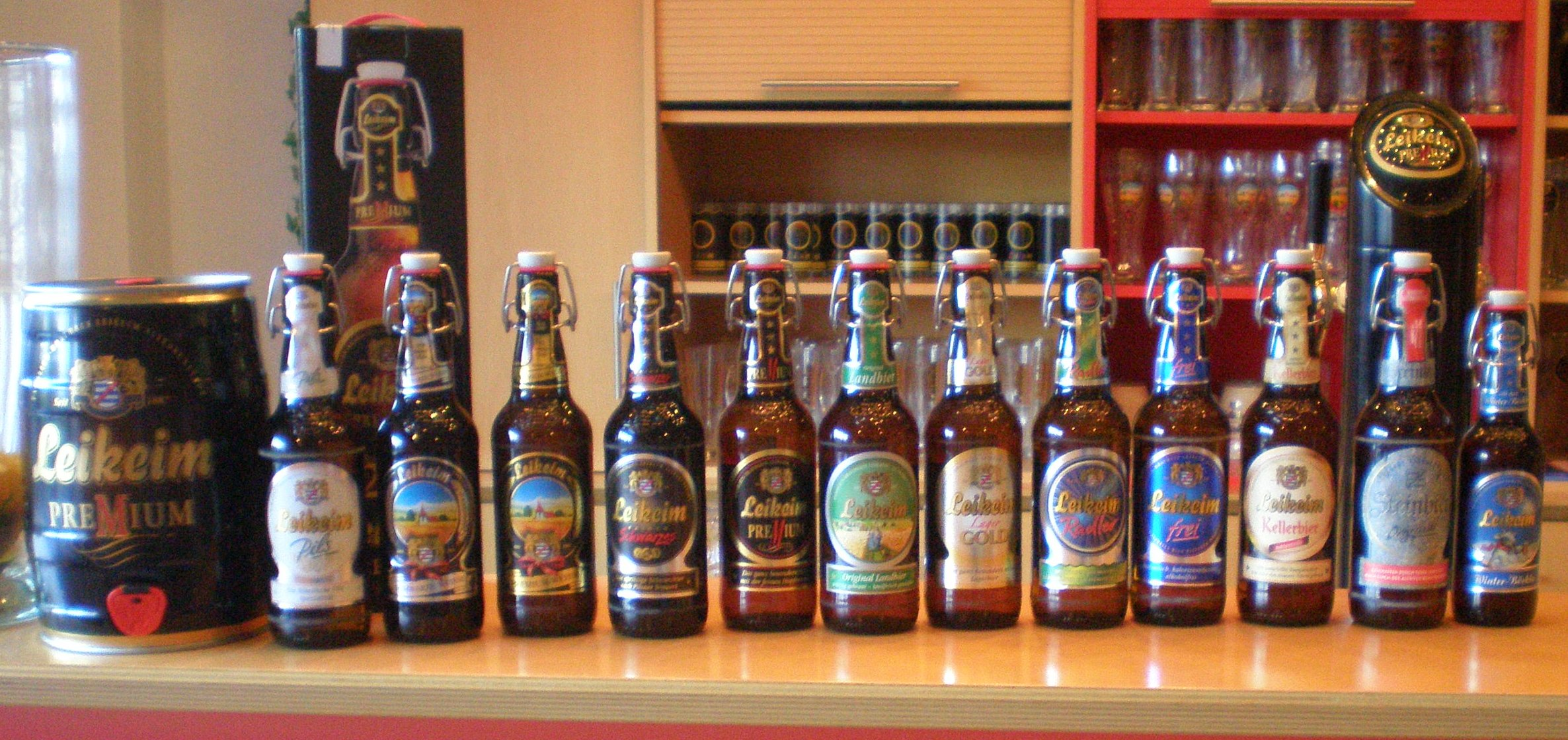 Old Design Sortiment of the Brewery Leikeim